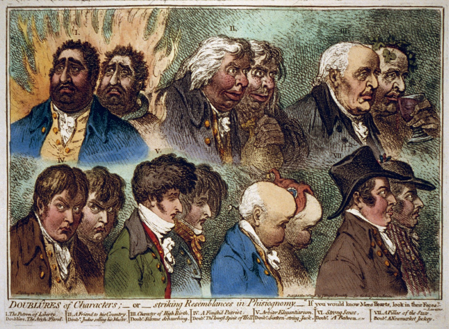 Doublûres of Characters;—or—striking Resemblances in Phisiognomy. – “If you would know Mens Hearts, look in their Faces” - Lavater Bust portraits of seven leaders of the Opposition, each with his almost identical double, arranged in two rows, with numbers referring to notes below the title. The first pair are Fox and Satan, a snake round his neck; behind them are flames. 1 print : engraving. "J. Gillray inv. & fec." cf: P&P - NE55.L7A3 vol. [?], no. 9261. Forms part of : British Cartoon Prints Collection (Library of Congress). This record contains unverified data from caption card. I: The Patron of Liberty - The Arch Fiend (Charles James Fox) II: A Friend to his Country - Judas selling his Master (Richard Brinsley Sheridan) III: Character of High Birth - Silenus debauching (The Duke of Norfolk) IV: A Finiſh’d Patriot - The loweſt Spirit of Hell (George Tierney) V: Arbiter Elegantiarum - Sixteen-string Jack (Sir Francis Burdett, Bt) VI: Strong Sense - A Baboon (The Earl of Derby) VII: A Pillar of the State - A Newmarket Jockey (The Duke of Bedford)